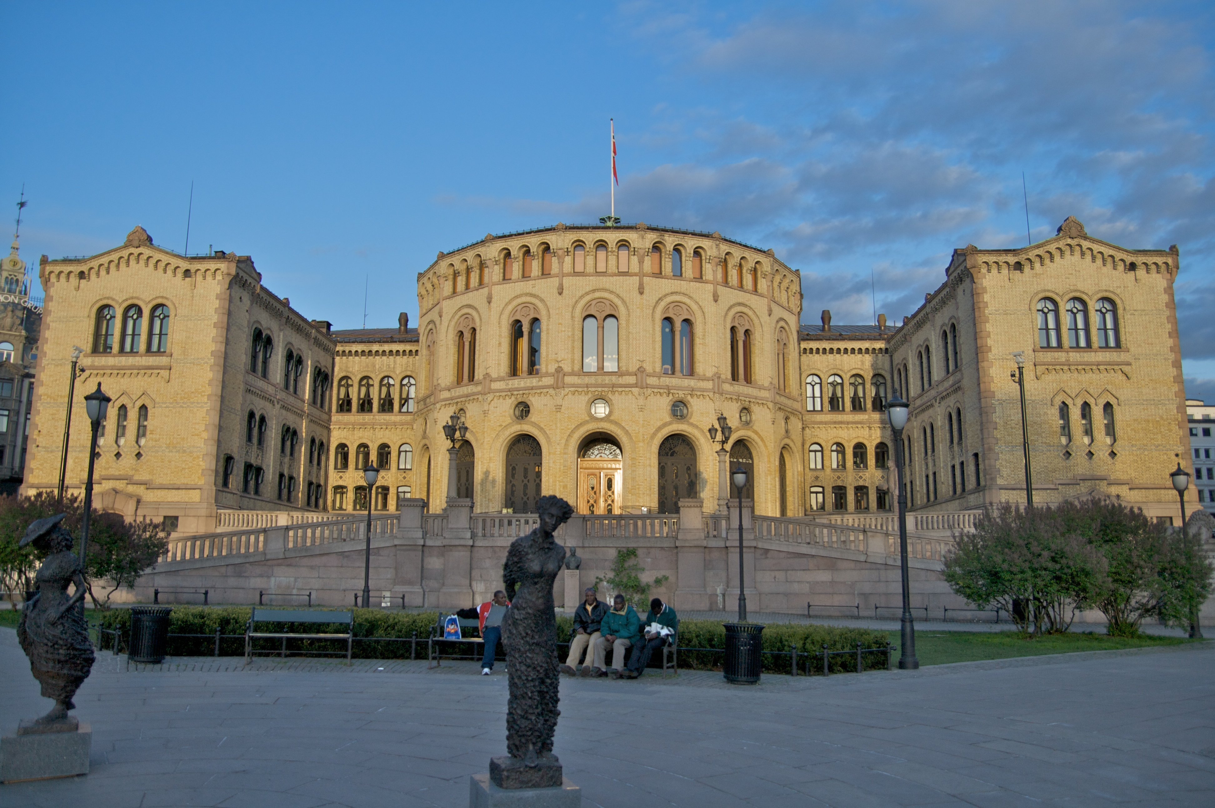 Picture of the Norwegian Parliament.